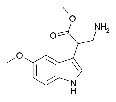 Structure of indorenate